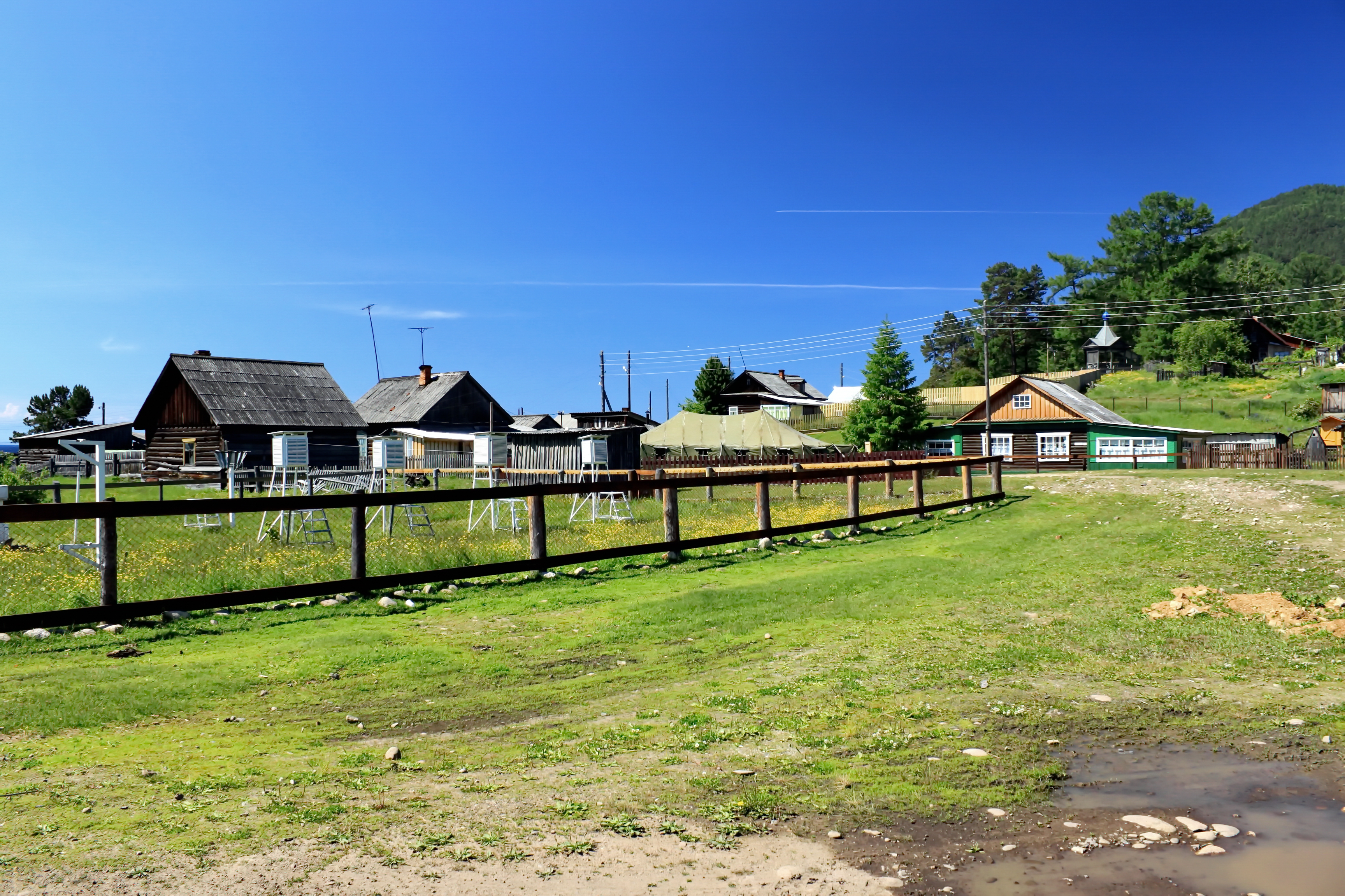 View of the village. Bolshiye Koty, Russia.